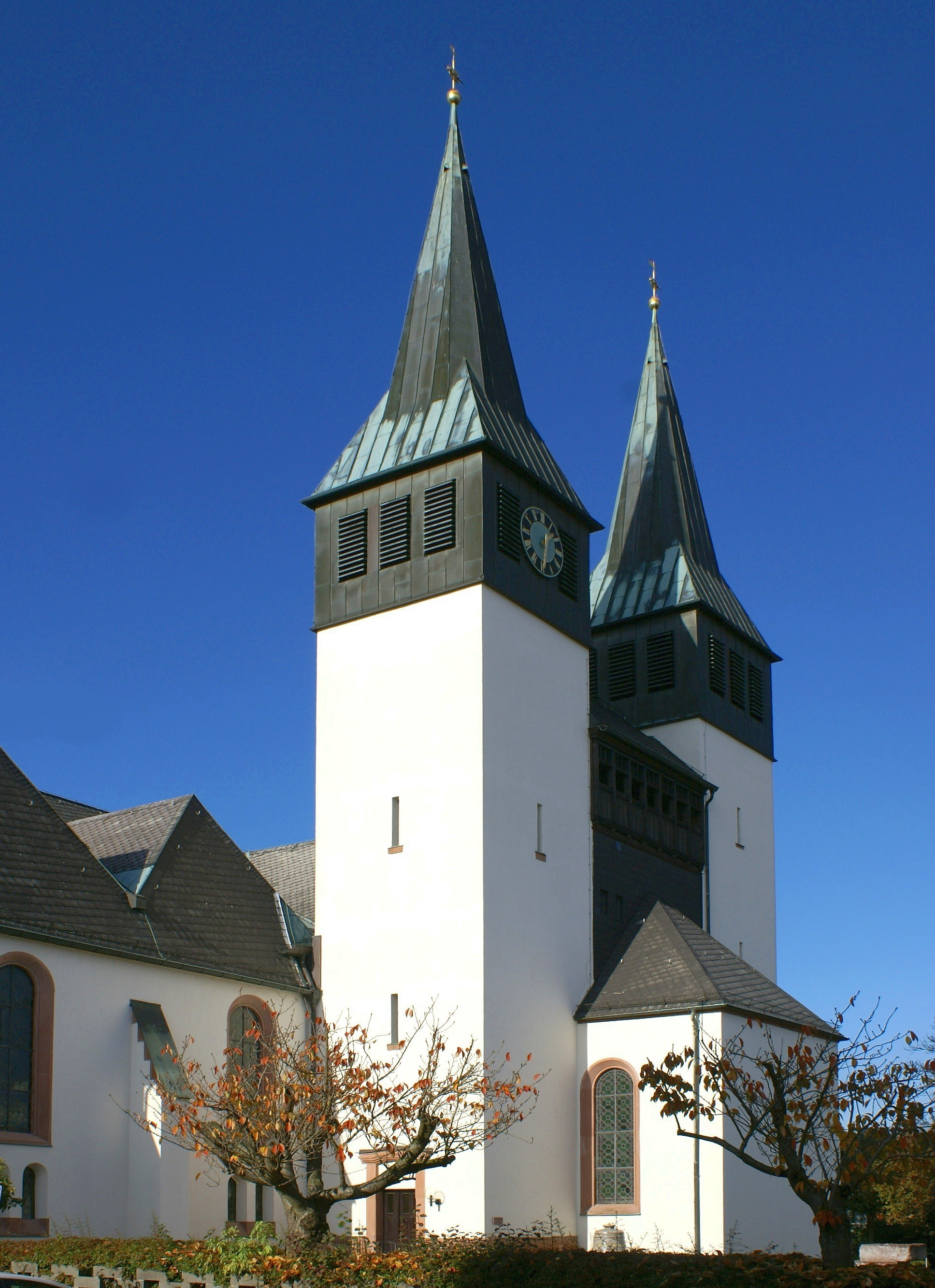 Catholic church of St. Anna in Somborn that is part of the community Freigericht